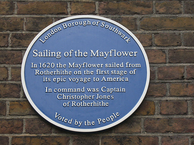 St Mary, Rotherhithe - Mayflower plaque. The plaque to commemorate the sailing of the Mayflower (one of the first ships to take settlers from England to America) on the south side of St Mary's church 1315999.